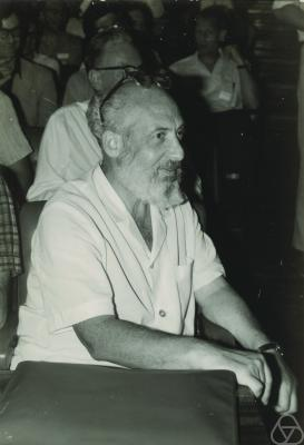 Samuel Eilenberg (1913—1998), mathematician